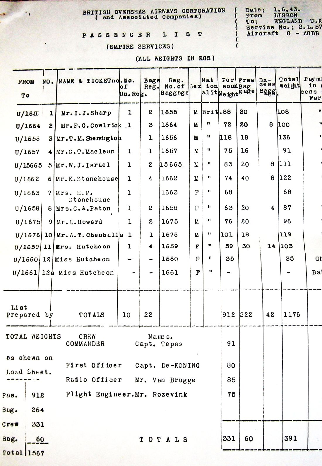 Fatal BOAC flight 777 passengerlist